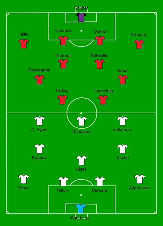 OM (white) / Paris SG (red).